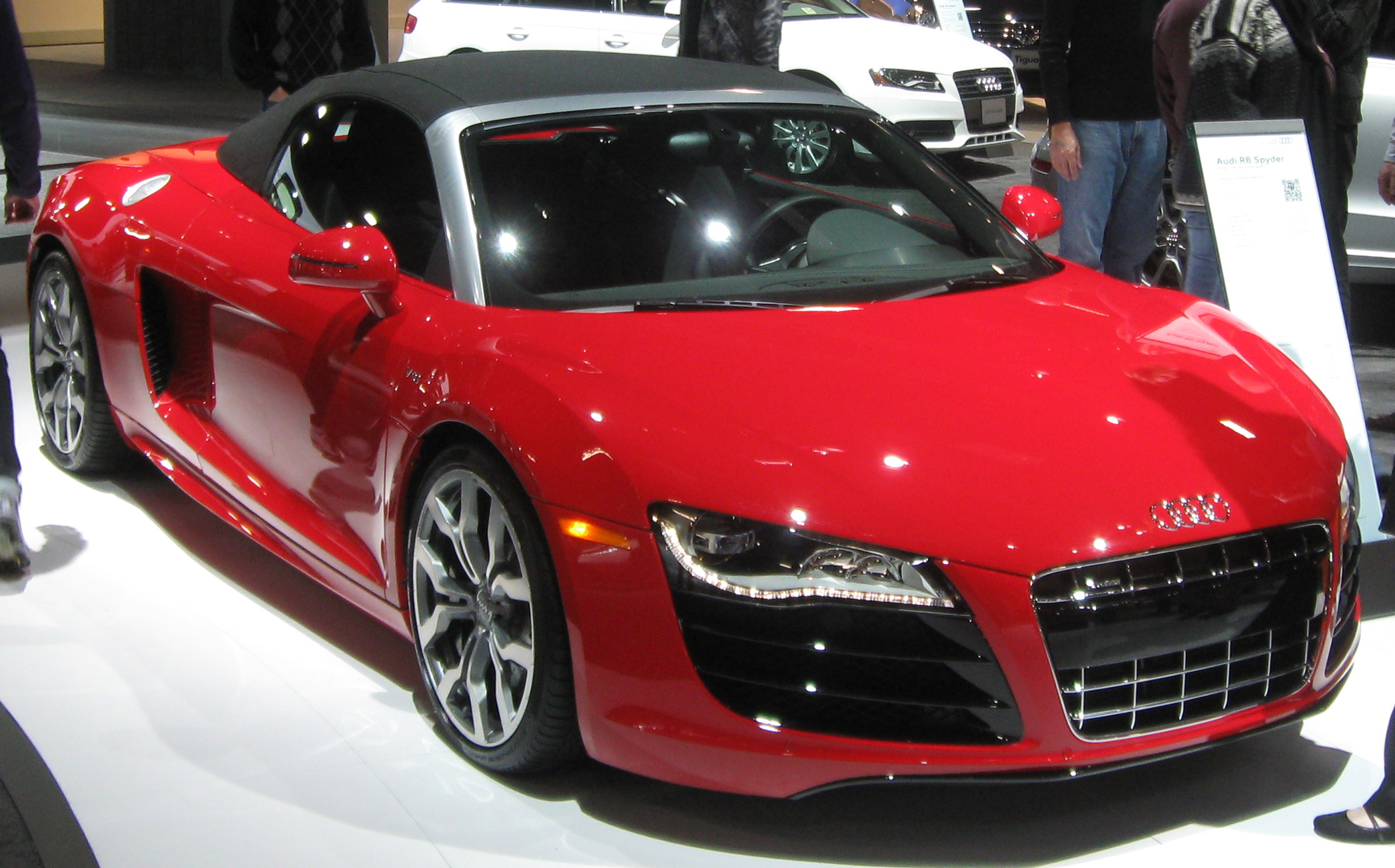 Audi R8 photographed at the 2011 Washington (D.C.) Auto Show.